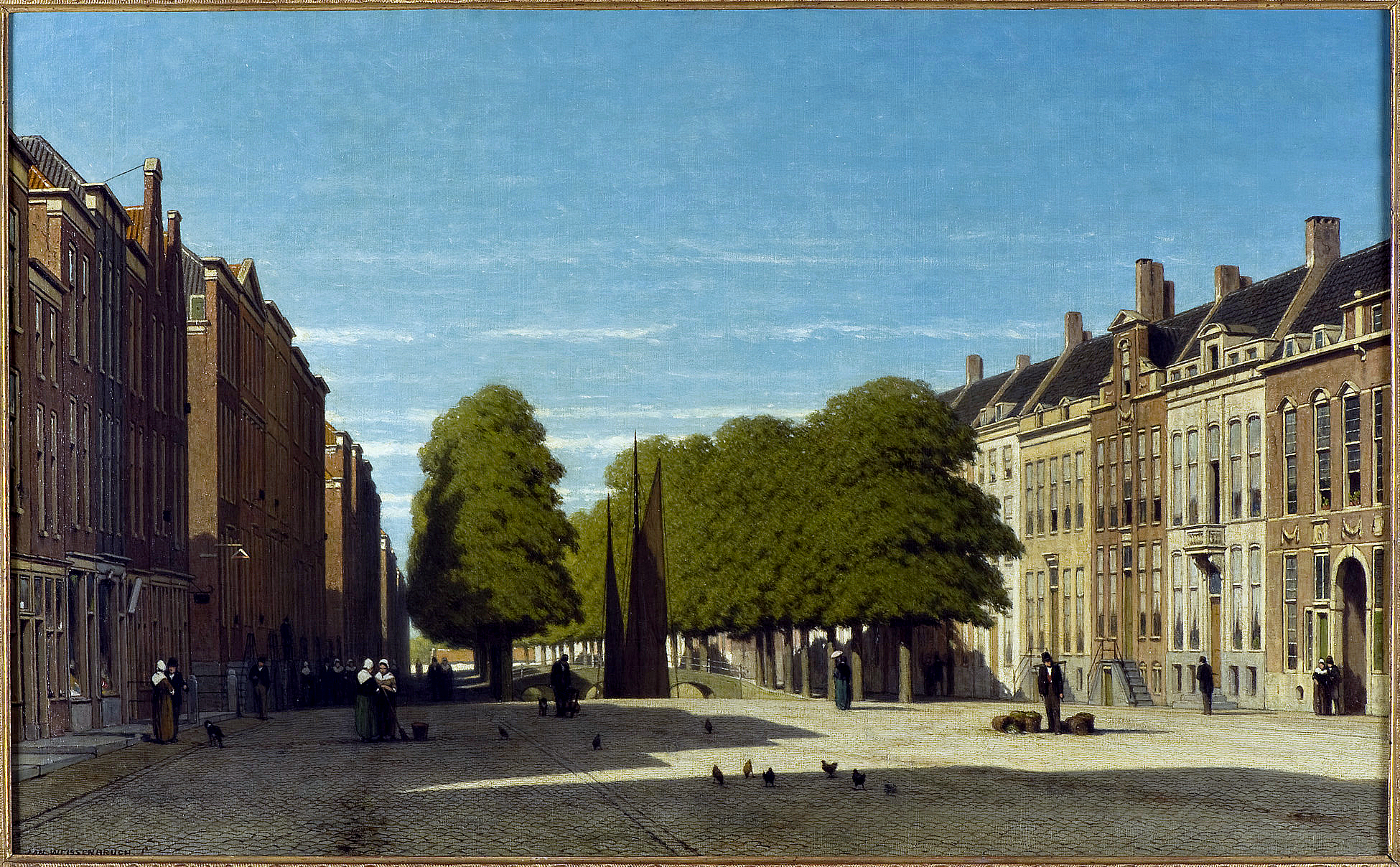 Prinsegracht in The Hague, Netherlands, seen from the Grote Markt (the market)